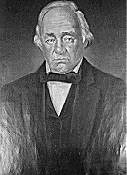 public domain file from of Aaron Matson.